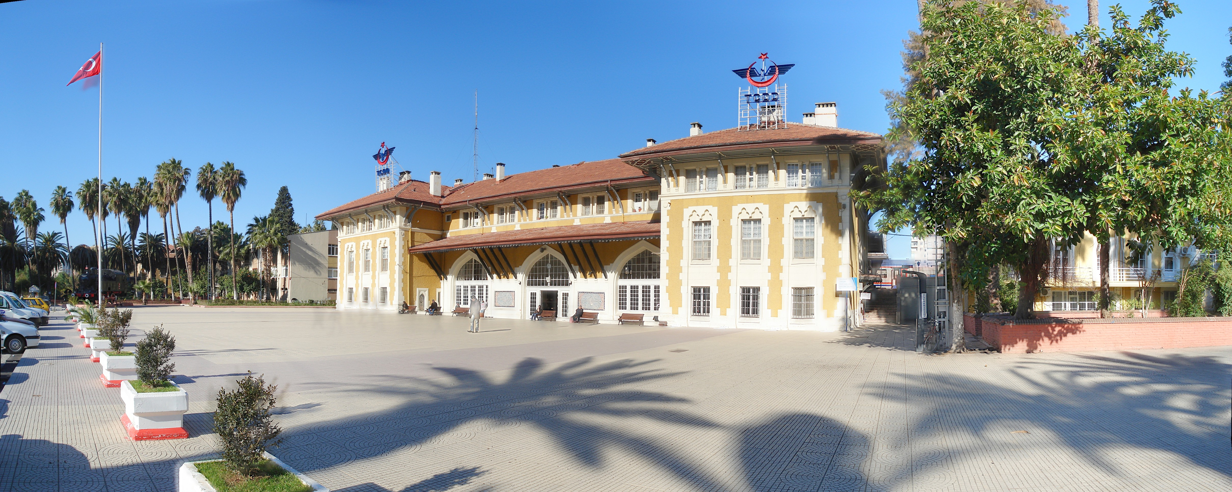 Adana Central Station.